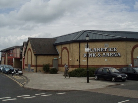 Planet Ice Rink - Ryde Website